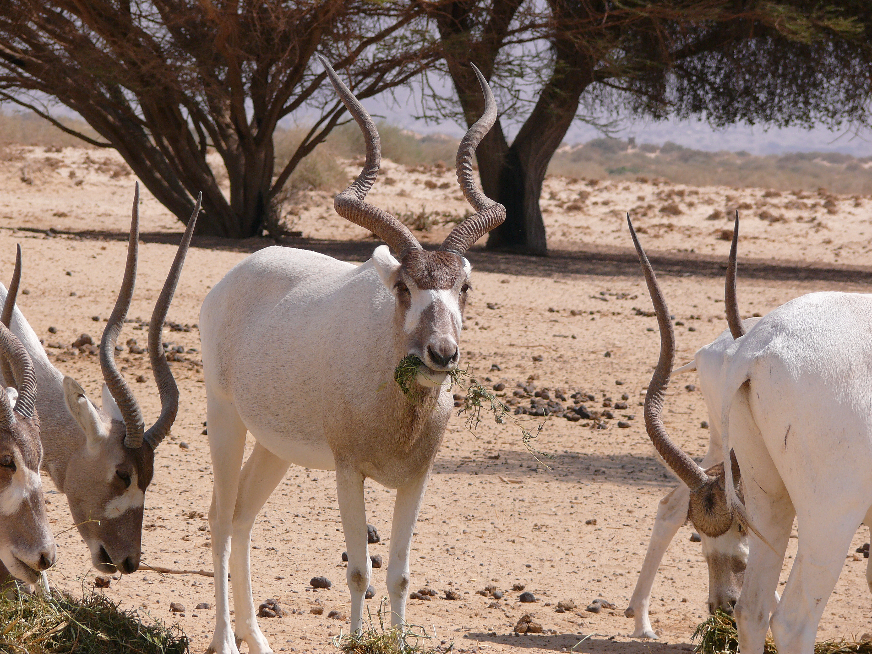 Addax nasomaculatus, Chay Bar Yotvata, Israel